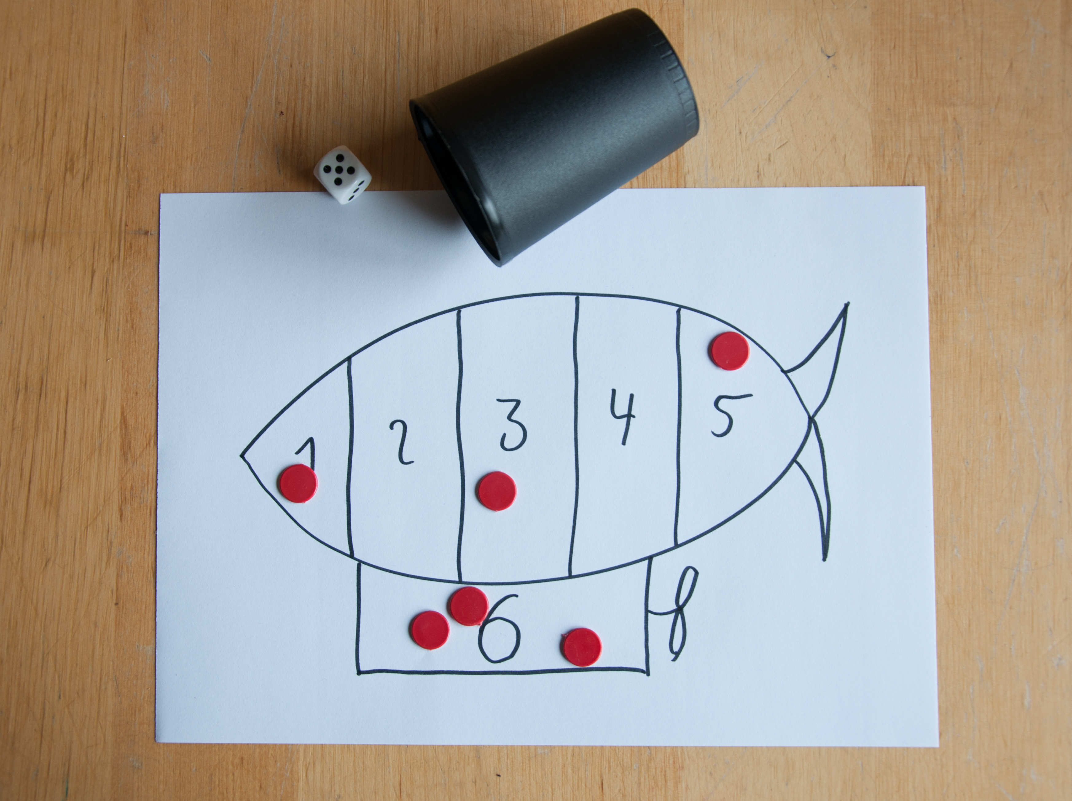 dice game named Zeppelin